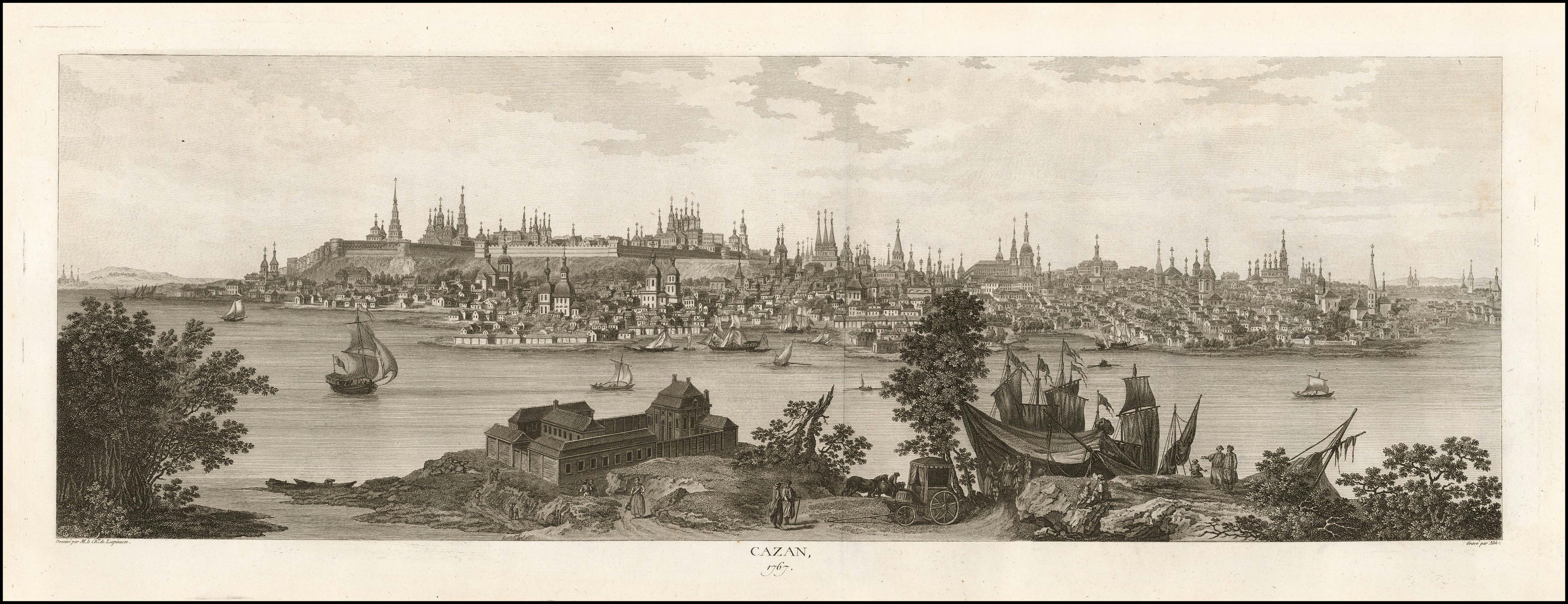 1767 illustration of Kazan